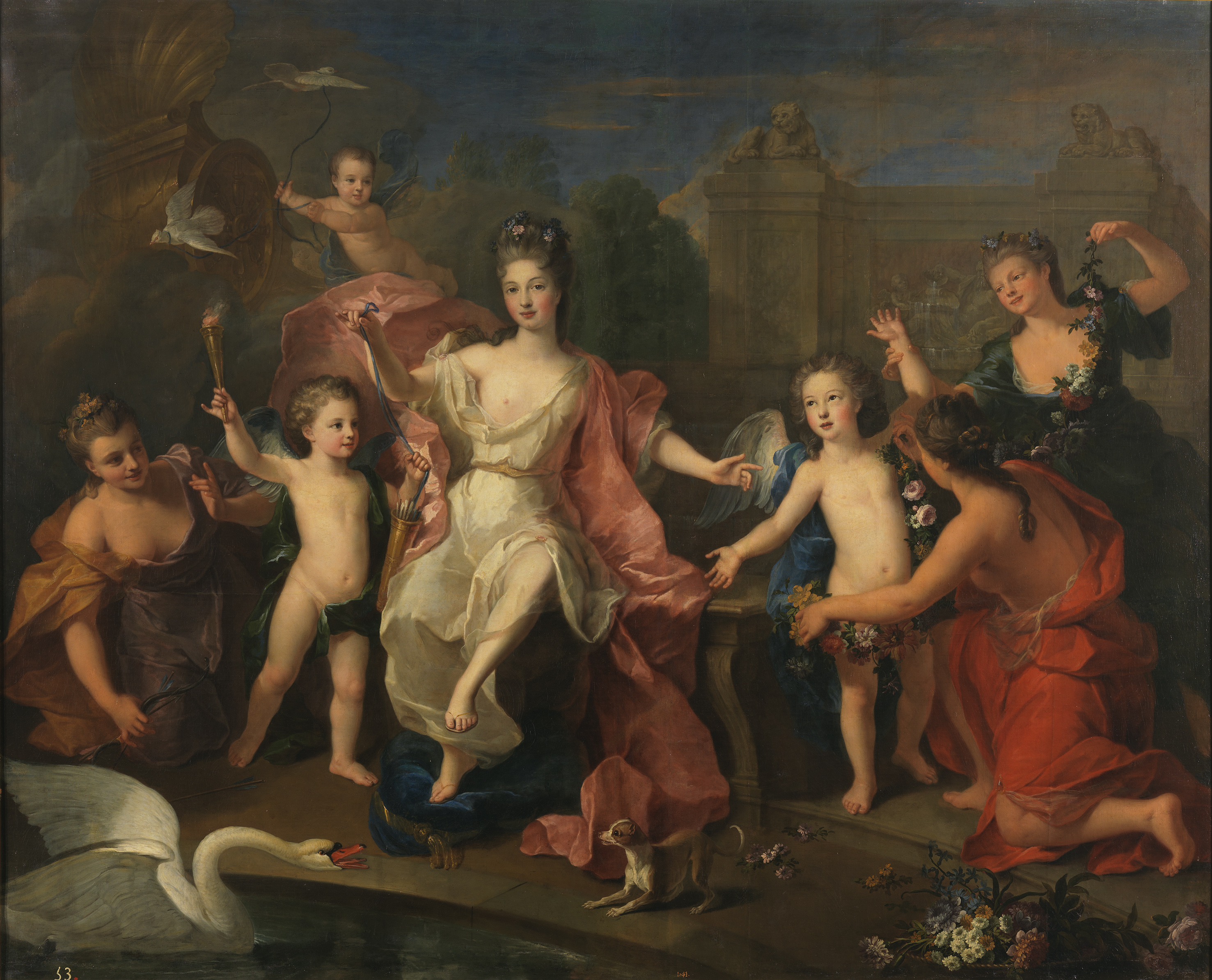 Caption from the museum